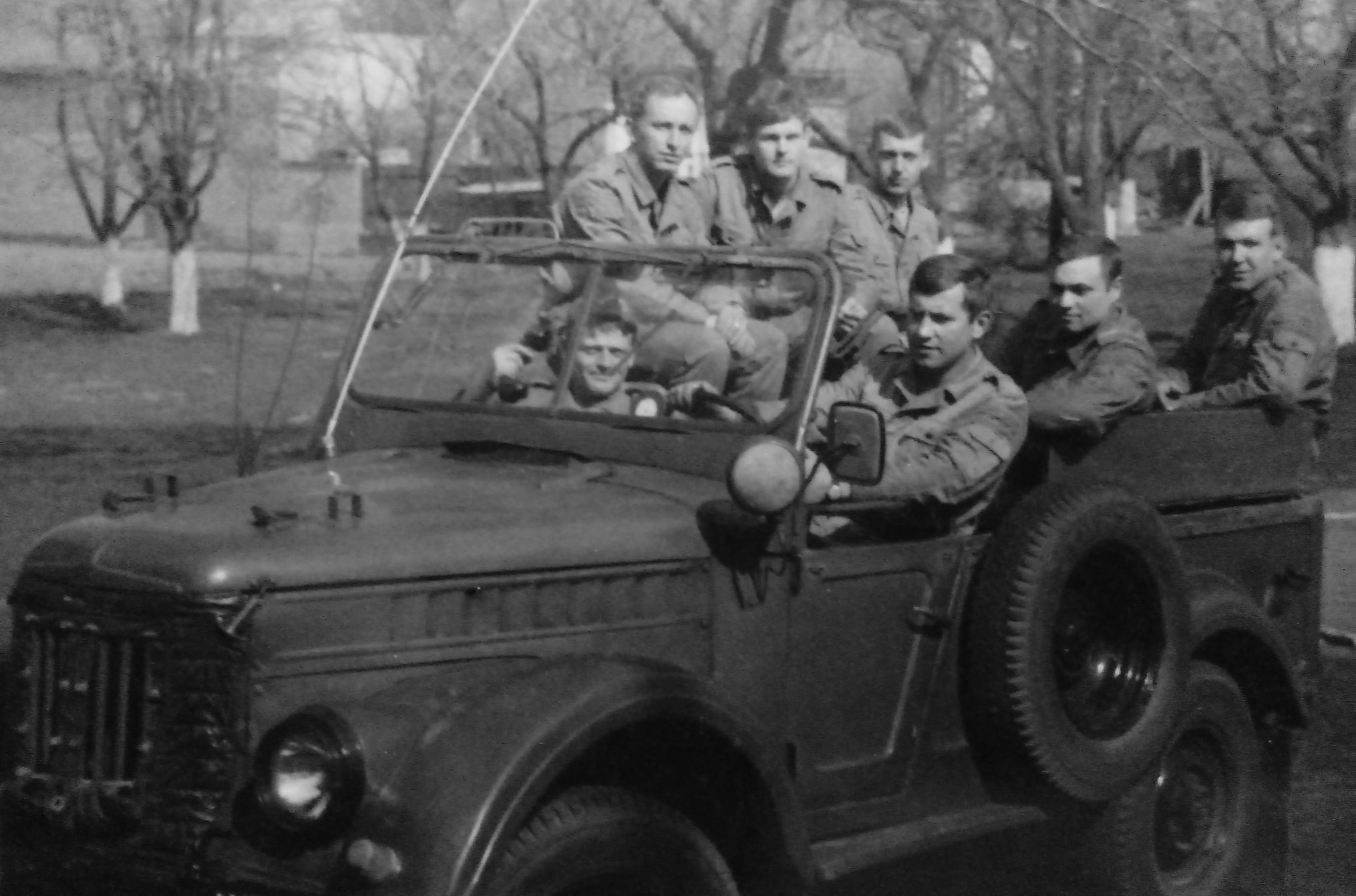 Border Protection Forces in Krzanowice